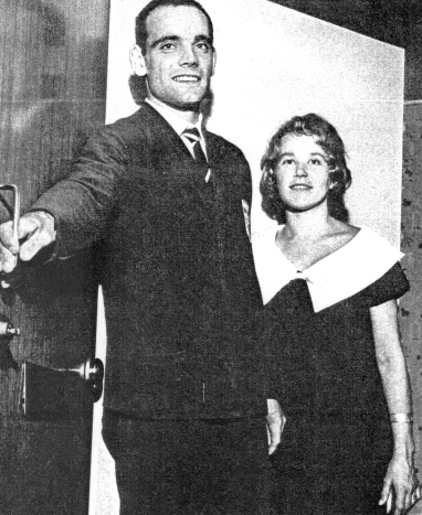 Photograph of the Finnish athlete Eugen Ekman (1937–) and his wife Marja in 1960.